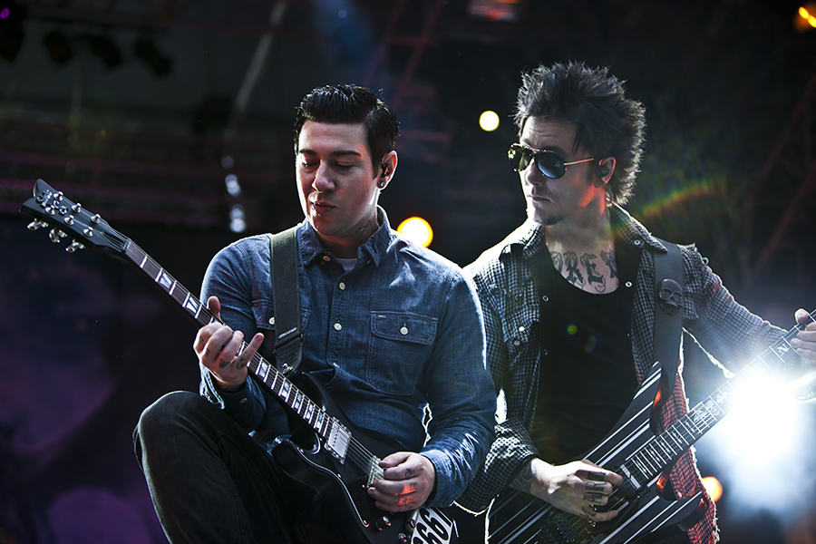 Zacky Vengeance and Synyster Gates of Avenged Sevenfold, live in Bergen, Norway - 2011